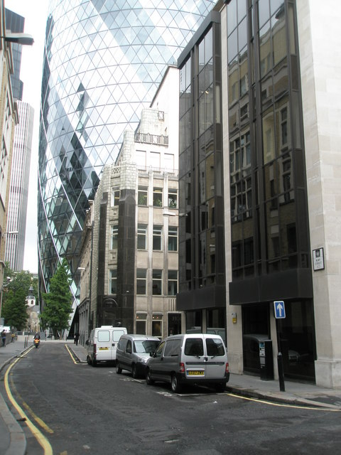 Bury Street